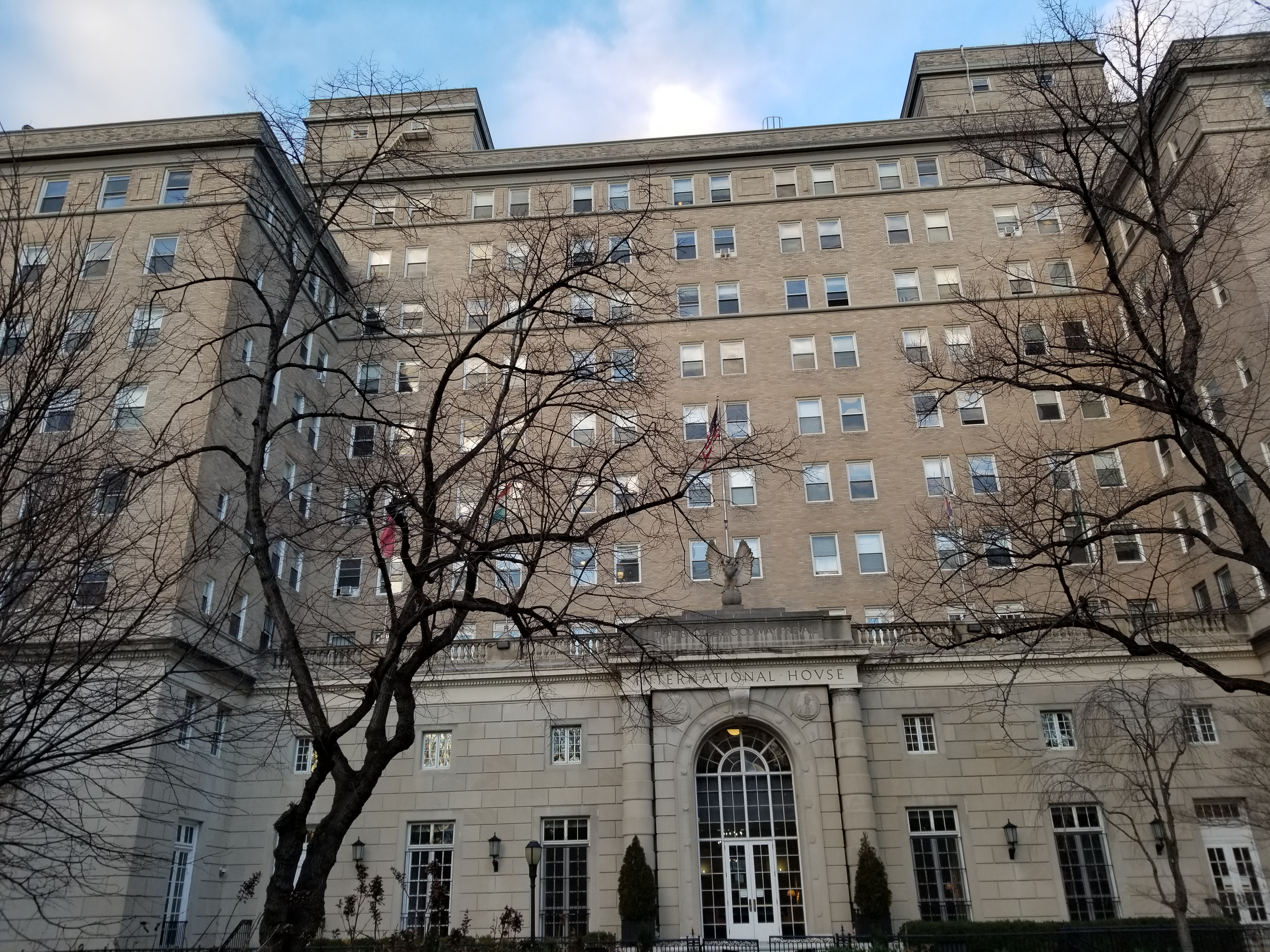 International House of New York, January 2019